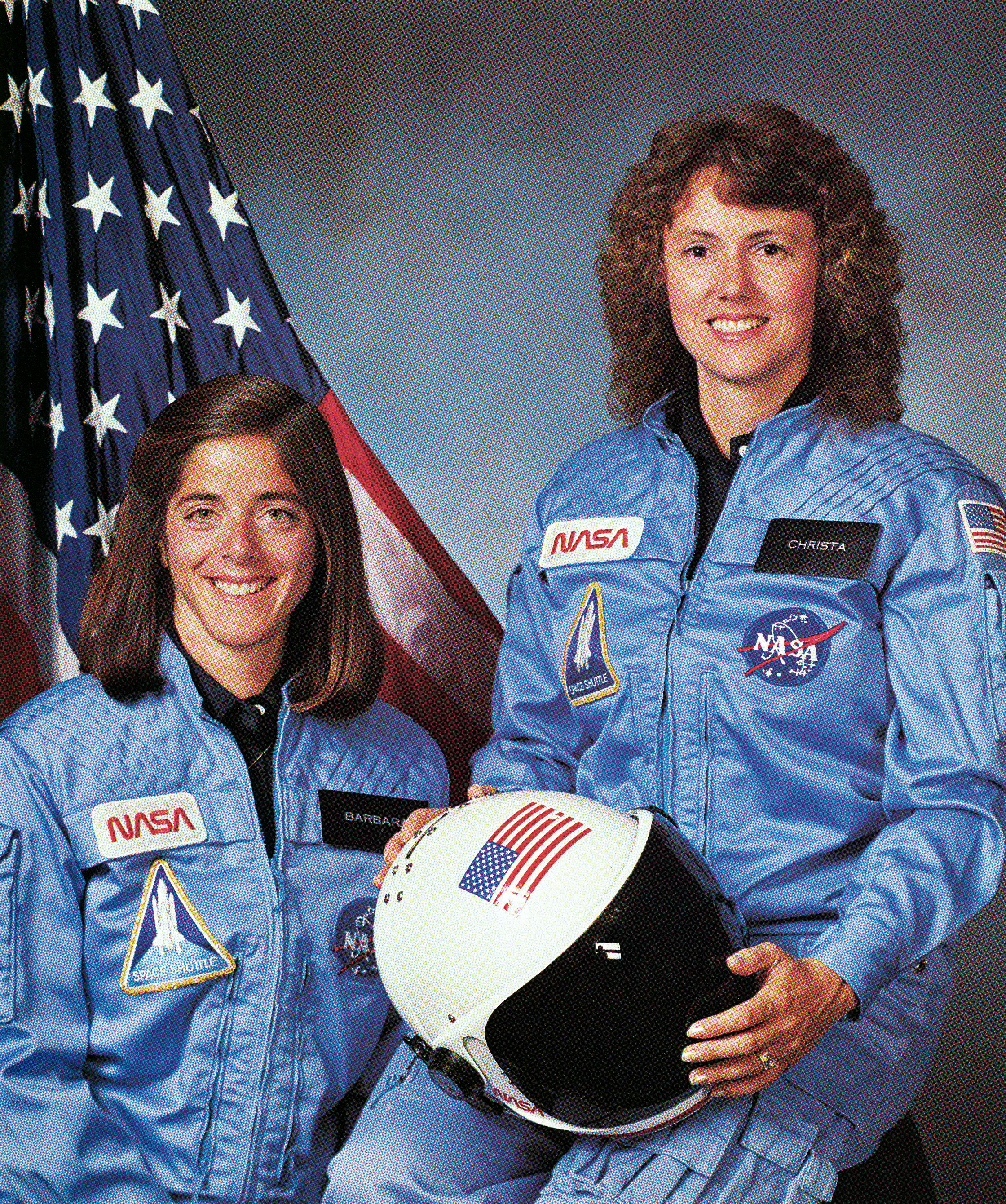 Christa McAuliffe and Barbara Morgan, Teacher in space primary and backup crew members for Shuttle Mission STS-51L. This mission ended in failure when the Challenger orbiter exploded 73 seconds after launch on January 28, 1986.